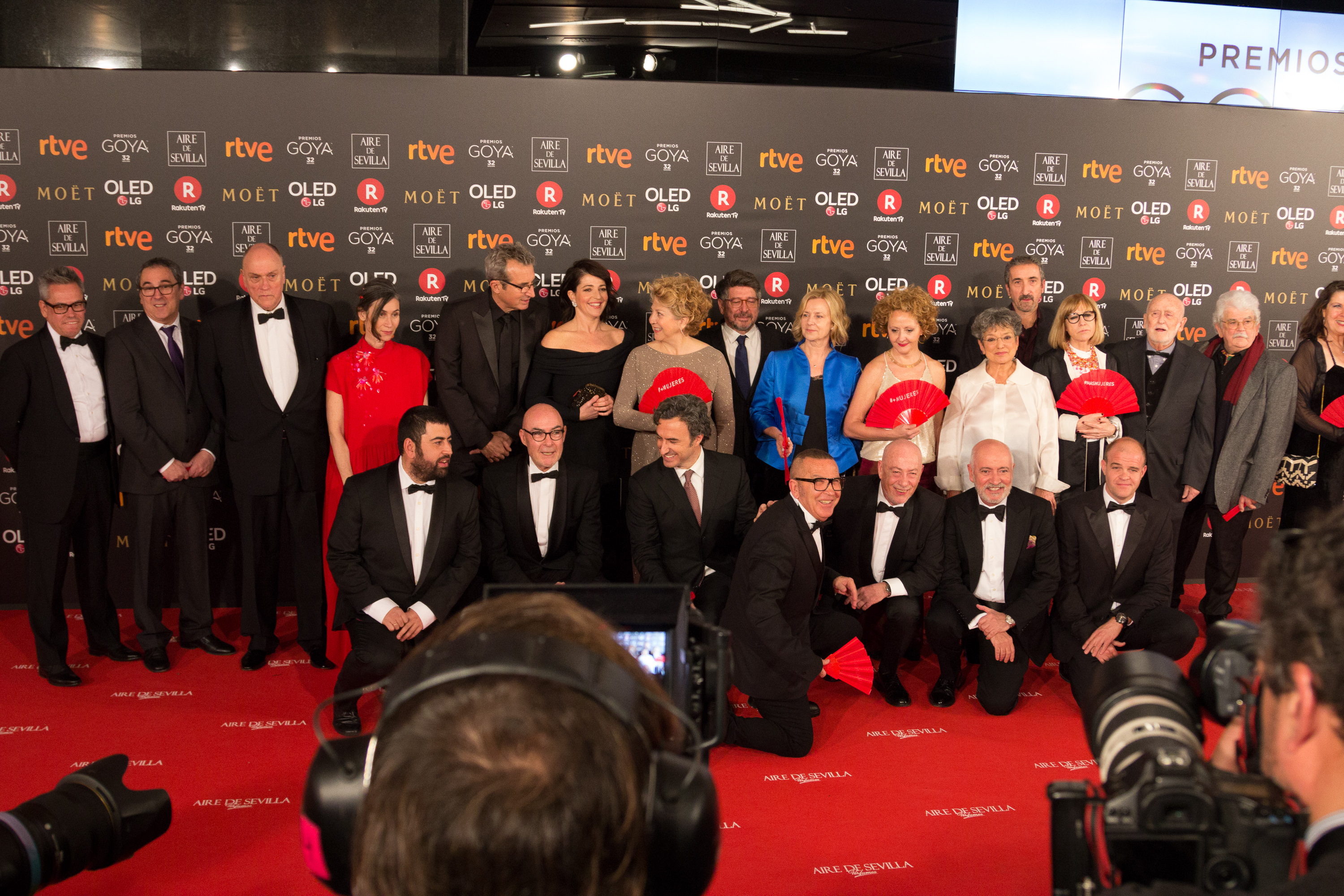 32nd Goya Awards, 2018.